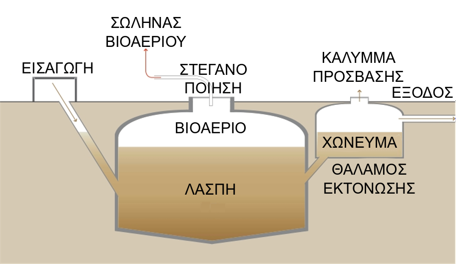 Schematic of the Biogas Reactor